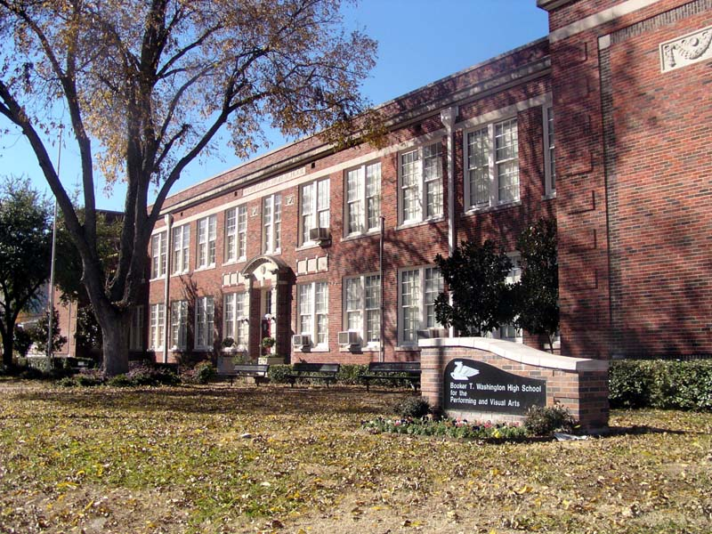 Category:Images of Dallas Booker T. Washington High School for the Performing and Visual Arts in the Arts District of downtown Dallas, Texas (United States)